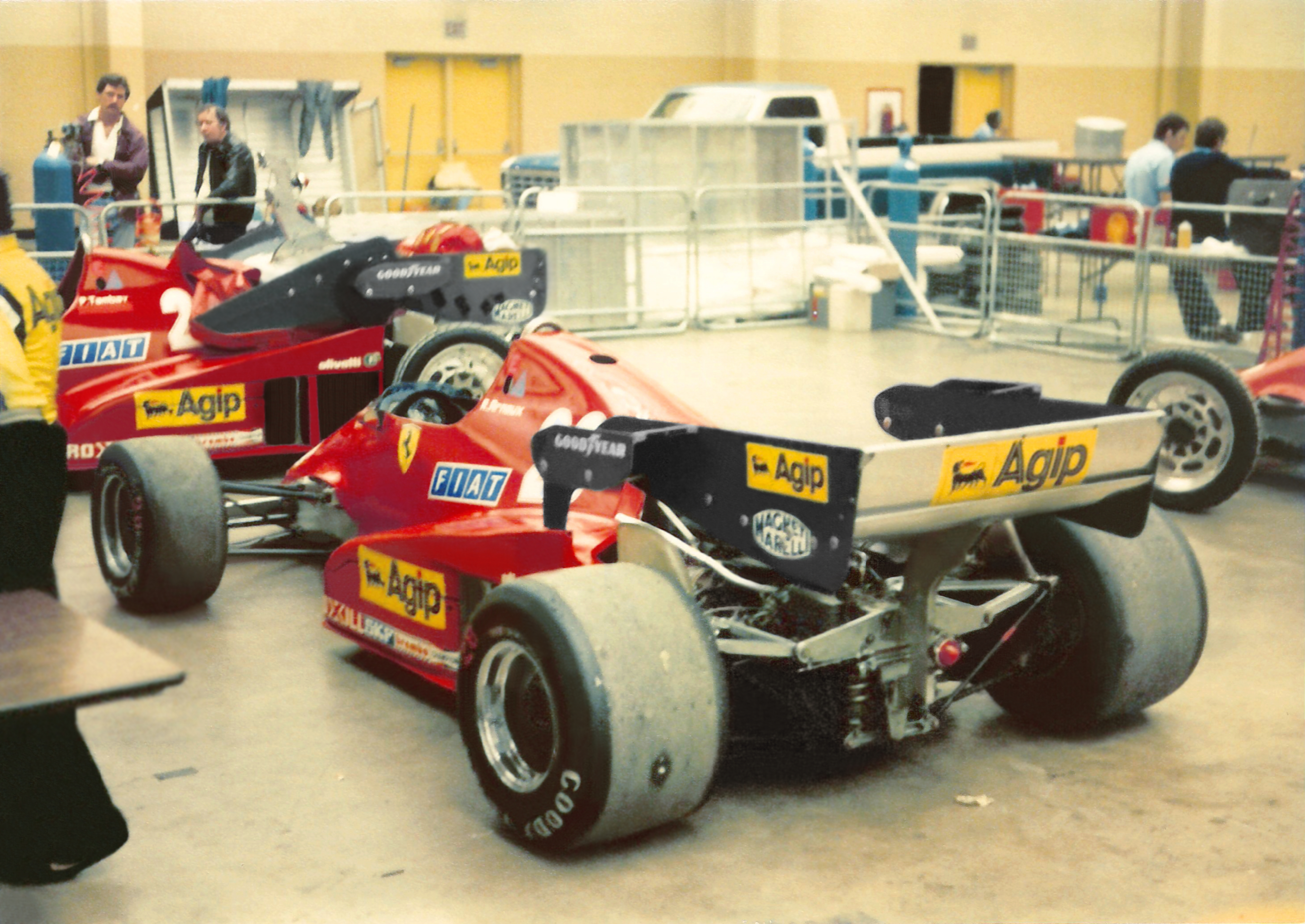 Ferrari 126C2B in the garage at the 1983 Detroit Grand Prix.